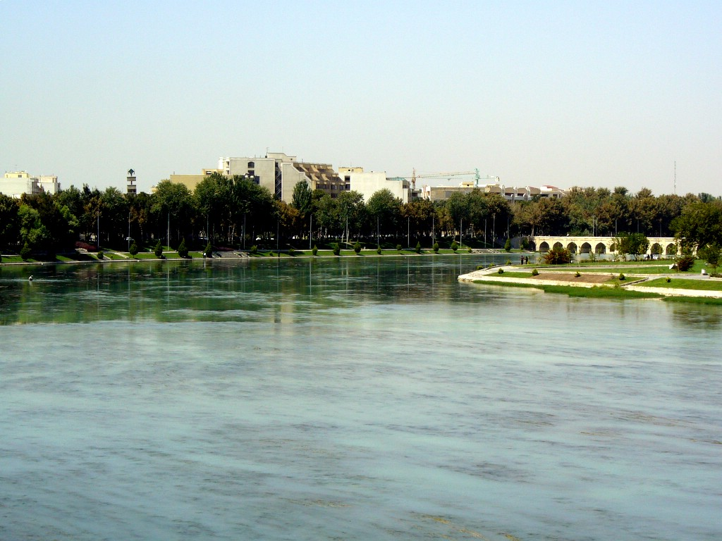 Photo of Zayanderood river,Isfahan,Iran.